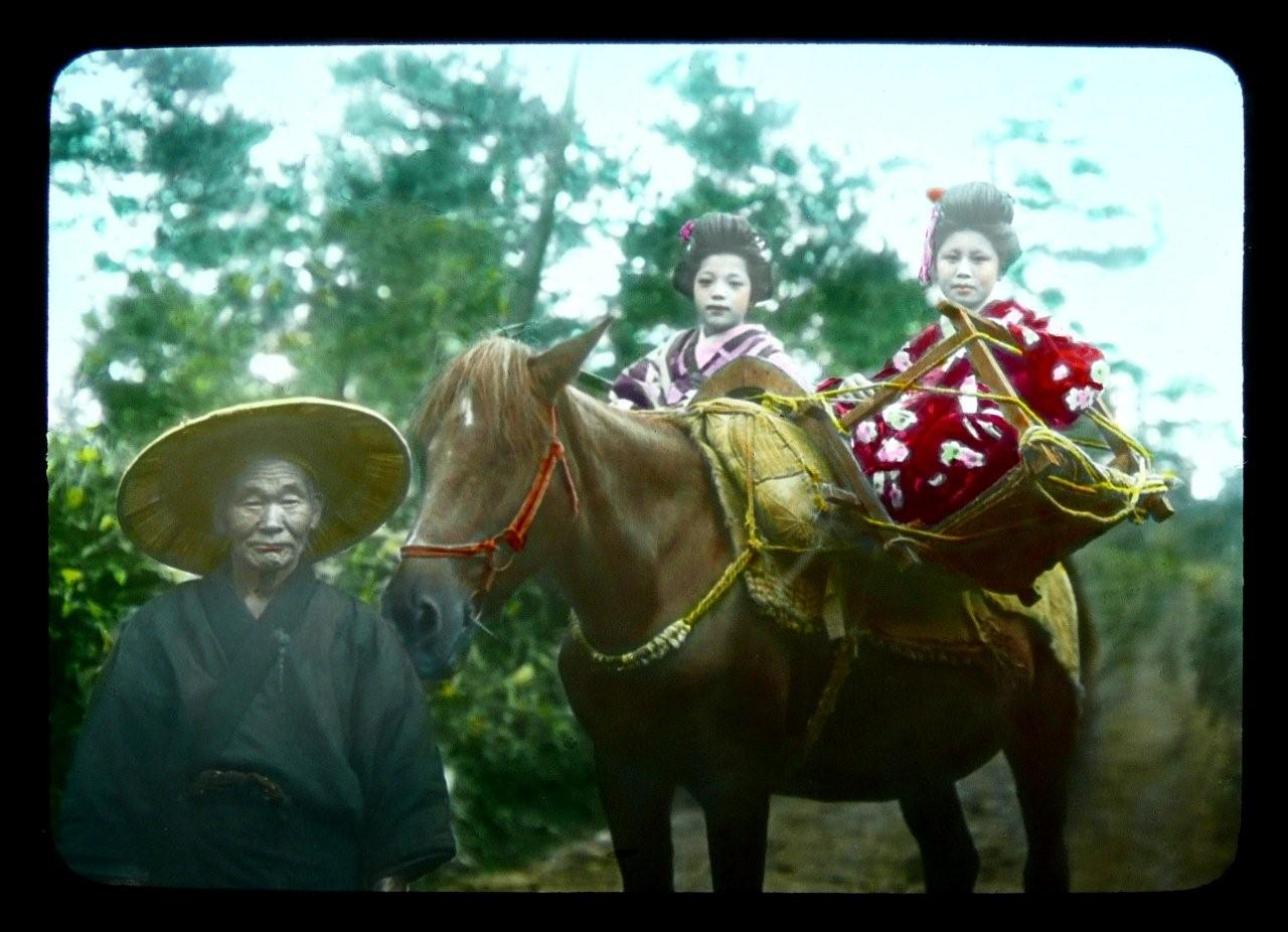 Japanese pack horse (ni-uma or konidauma) carrying two young ladies as passengers.